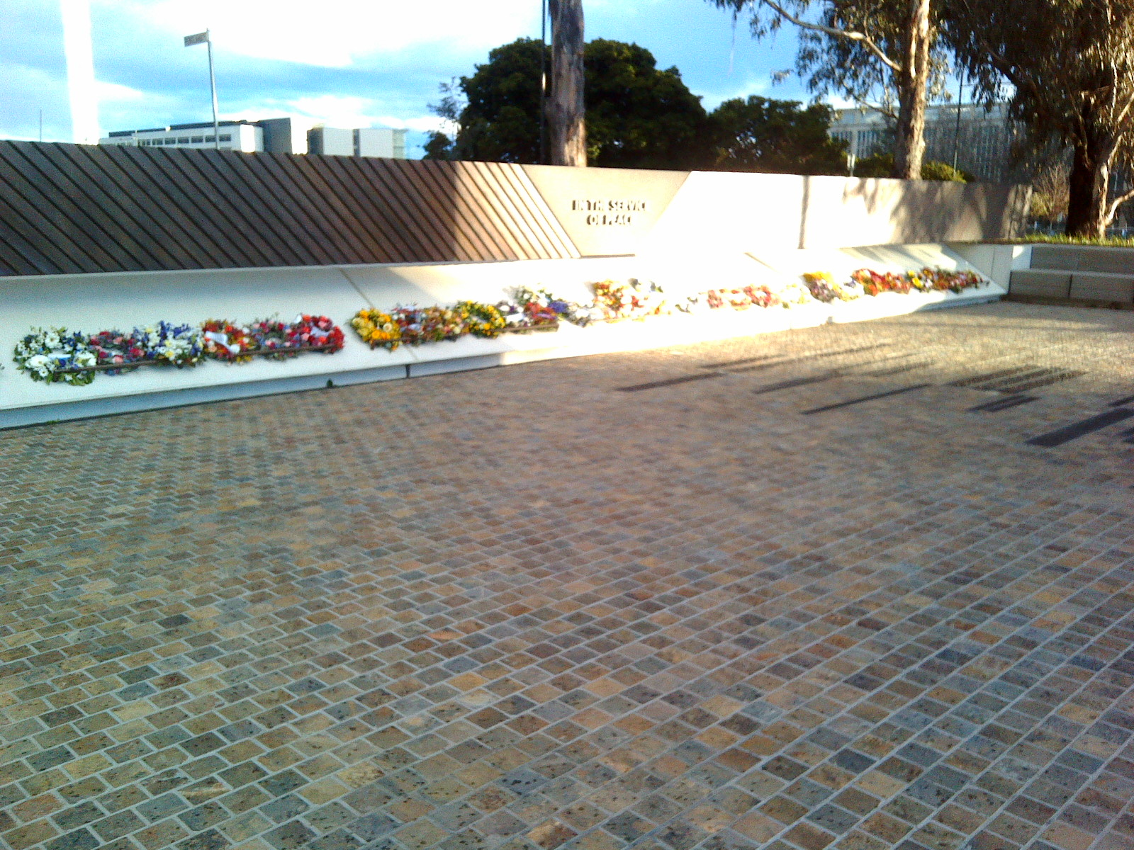 A view of the Peacekeepers Memorial, Canberra showing the area behind the memorial